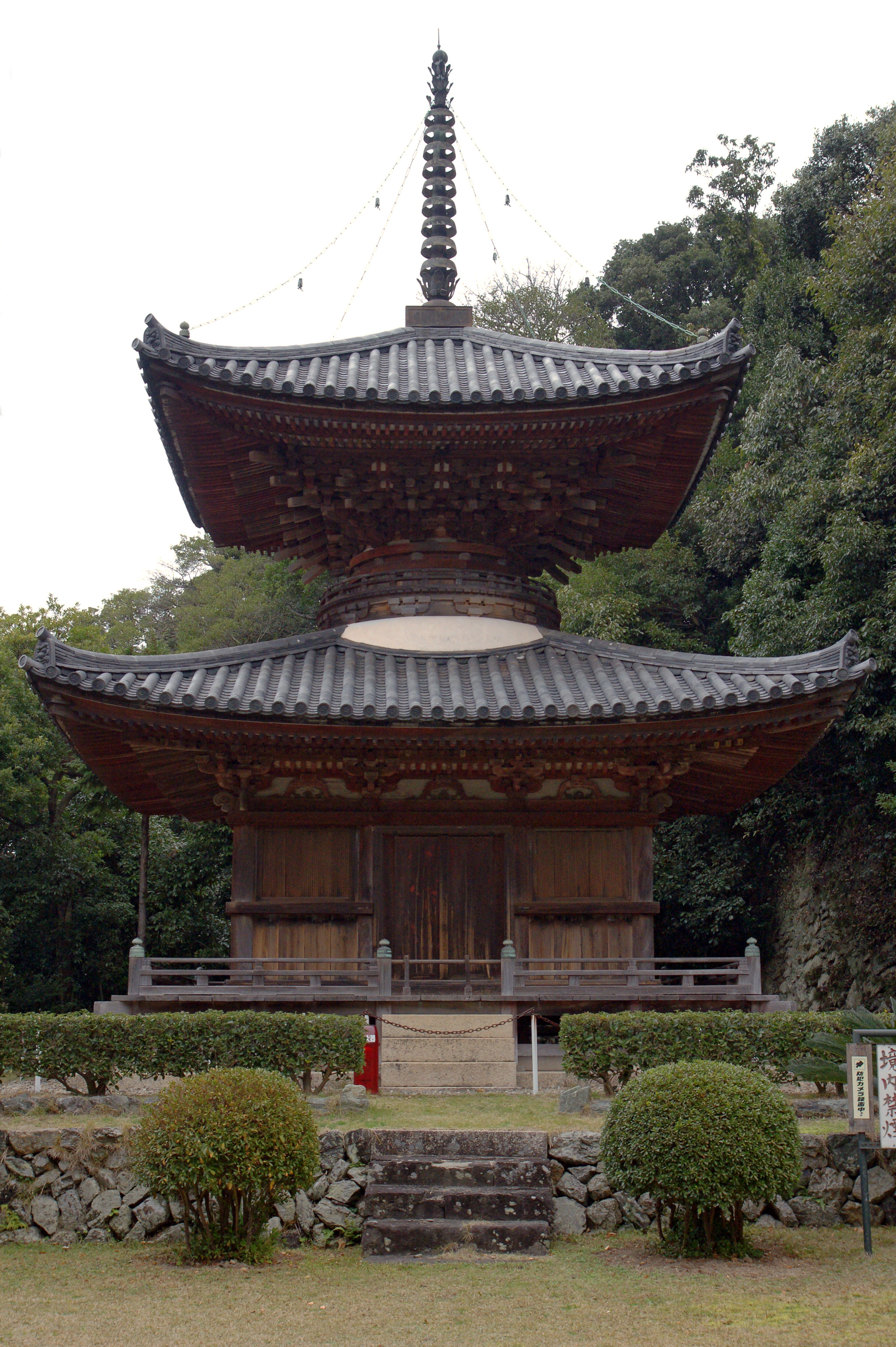 Jomyoji, Arida, Wakayama prefecture, Japan